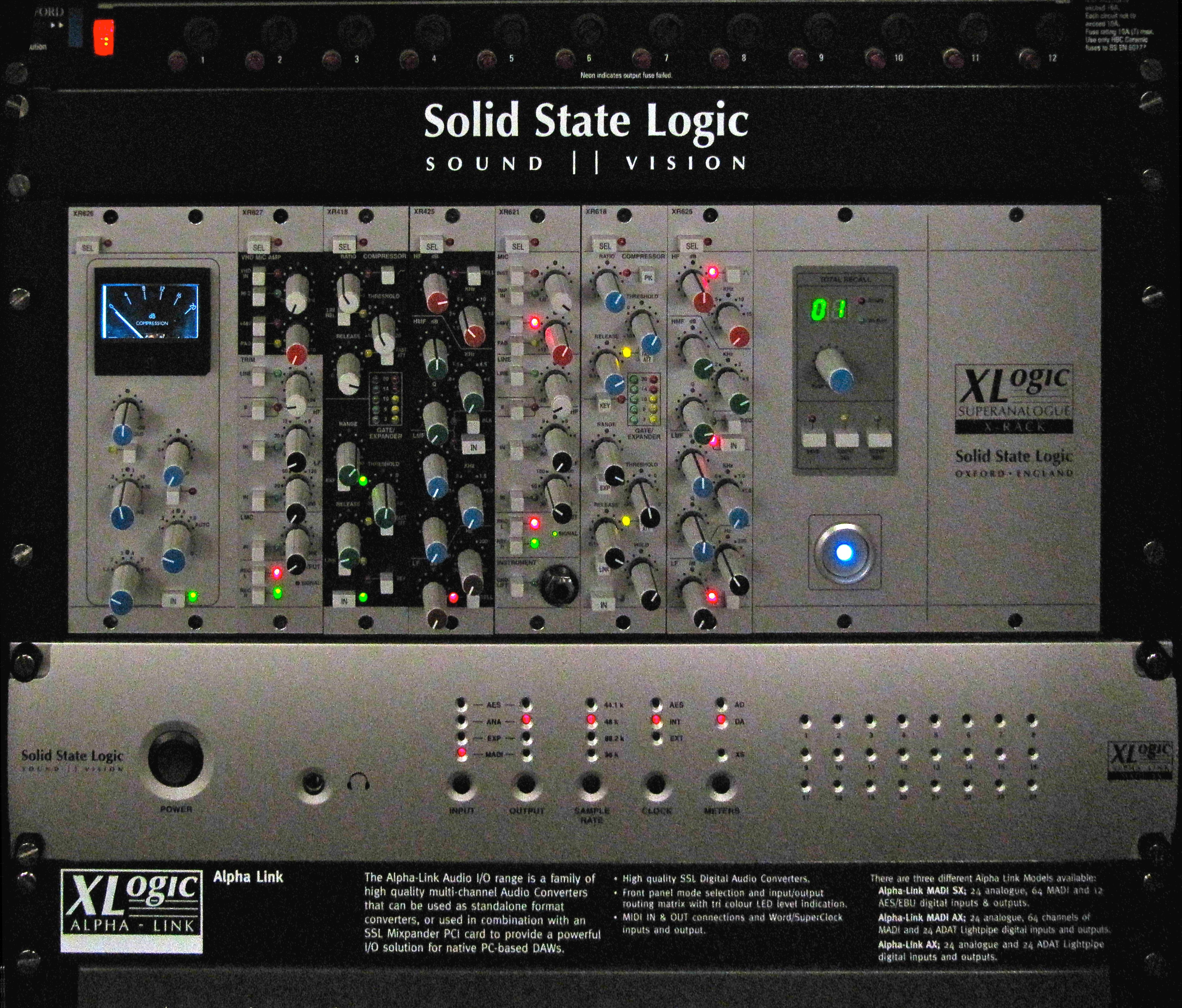 SSL booth on IBC2009 SSL XLogic X-Rack SSL XLogic Alpha-Link